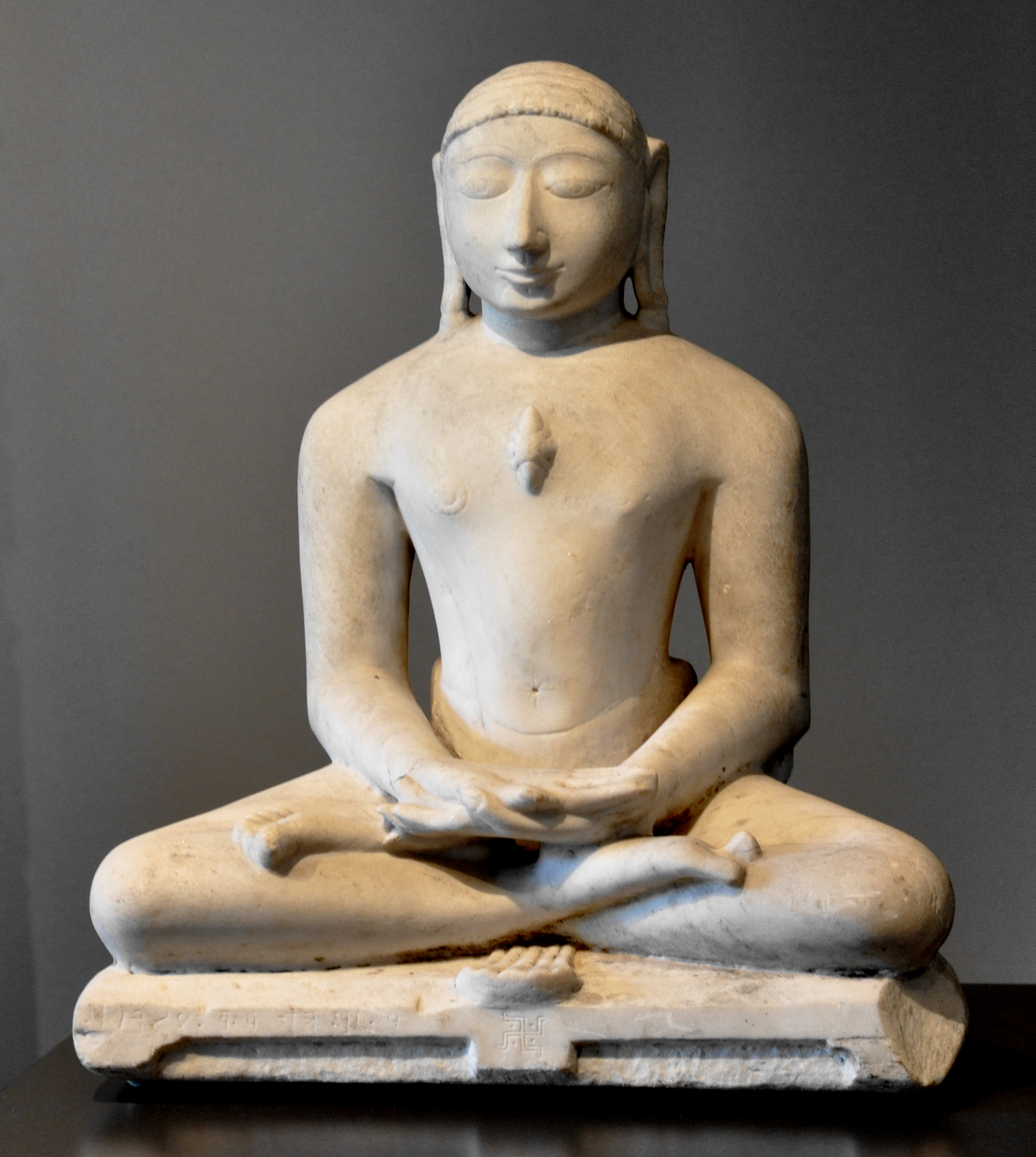 Thirthankara Suparshvanath, India, southern Rajasthan or northern Gujarat